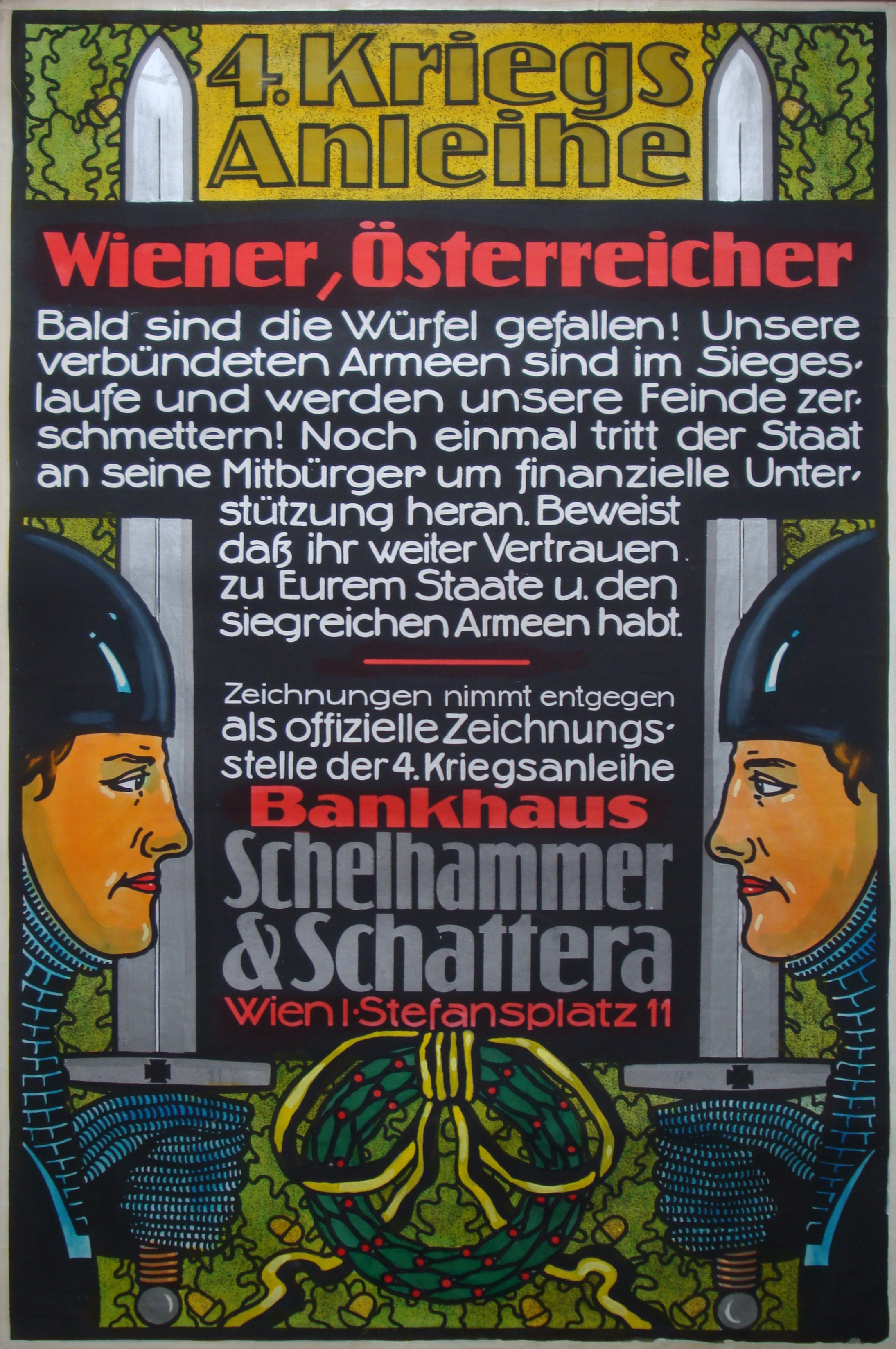 Austria-Hungary: Anonymous. 4. War Bond. 121 x 80 cm 1916.. (Slg.Nr. 2268) The euphoric text calls on the citizens of the homeland, once again to support the government financially and to trust in the victory. Until the actual defeat took another two years and was followed by four more war bonds. The Knights of the poster sides should create the image of a "chivalrous war". These symbols often used were a deliberate deception.